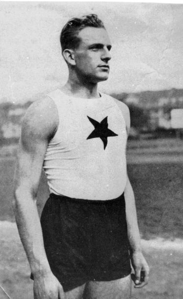 Athlet František Douda after leveling world record.